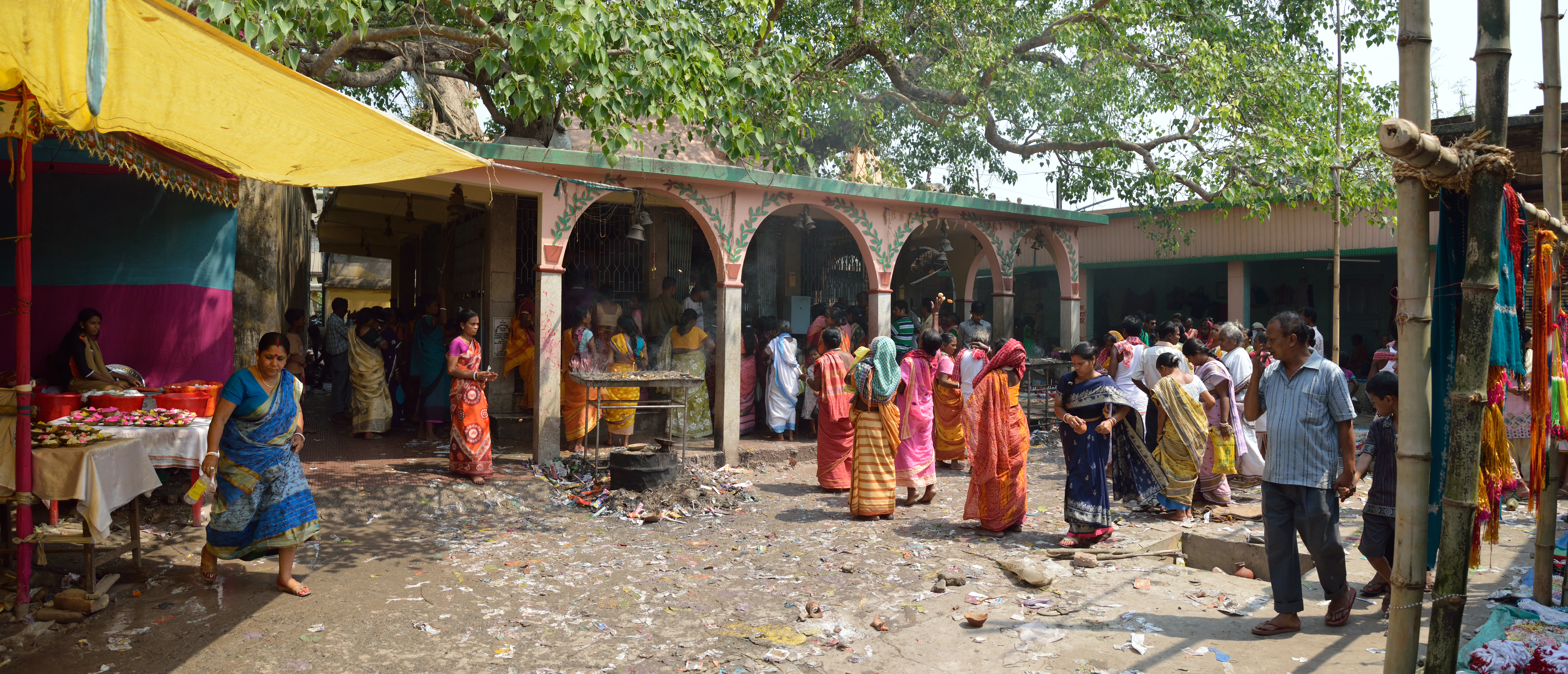 It is a stitched image from several files, during the 'Charak' and 'Gajan' festival at the village Narna of Howrah, West Bengal. A village fair also took place at the high summer. Charak and Gajan puja are traditional Bengali folk festivals of the Hindus celebrated before the Bengali new year day in the Bengal. Charak puja dedicated strictly to penance, it is unique in the Bengal. Gajan is also celebrated mostly in the Bengal, it is associated with Shiva, Neel and Dharma.